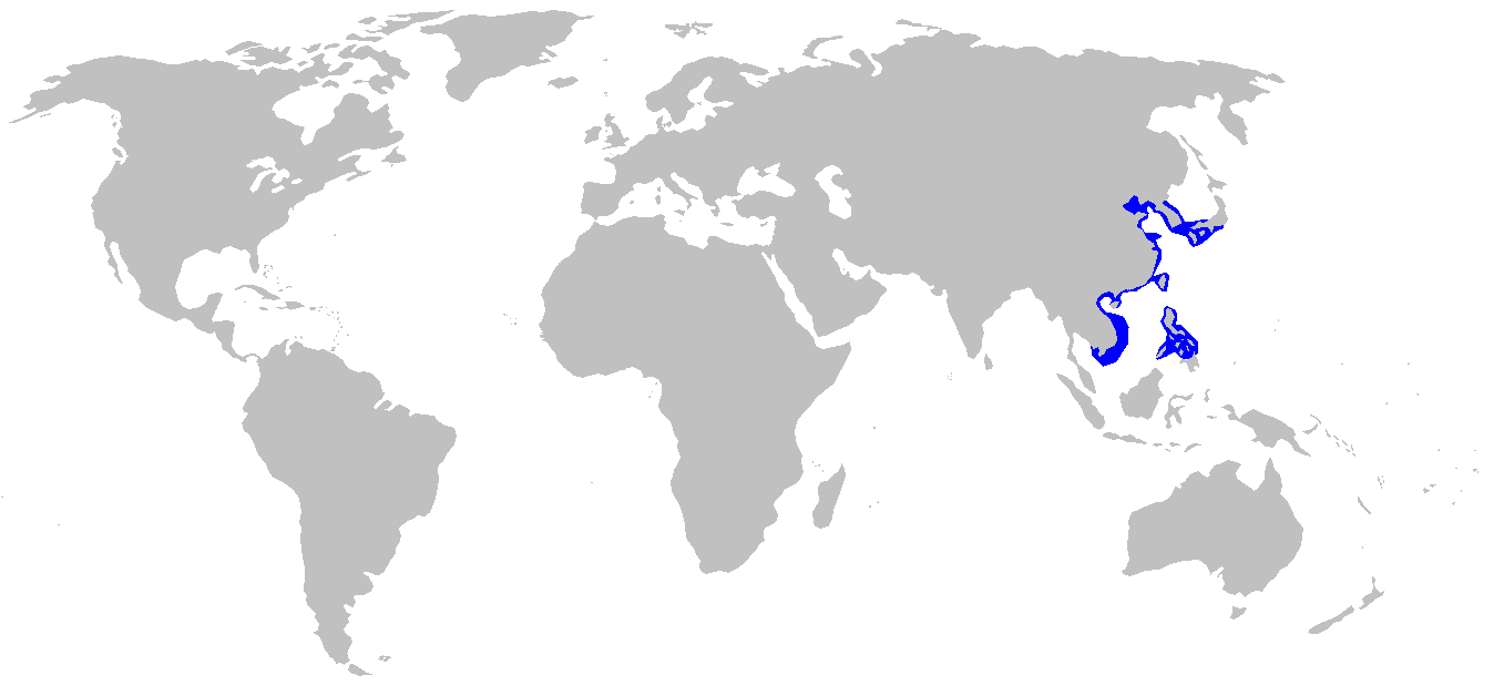 Distribution map for Orectolobus japonicus